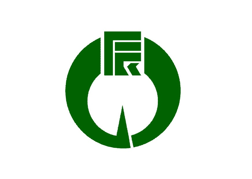 Flag of Tatsuno Nagano